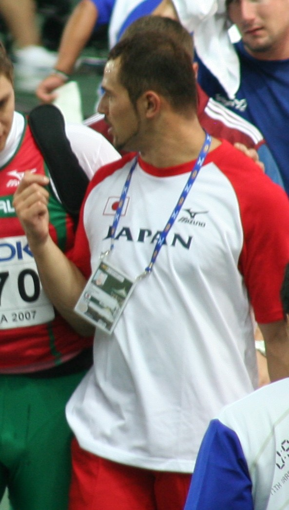 World Athletics Championships 2007 in Osaka - Koji Murofushi